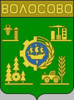 This was the coat of arms of Volosovo until 2007